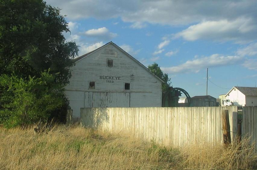 Barn in Buckeye, picture taken 25 June 2006.